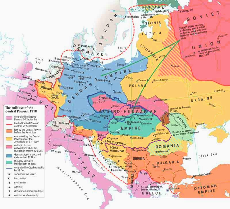 The Collapse of the Central Powers, 1918